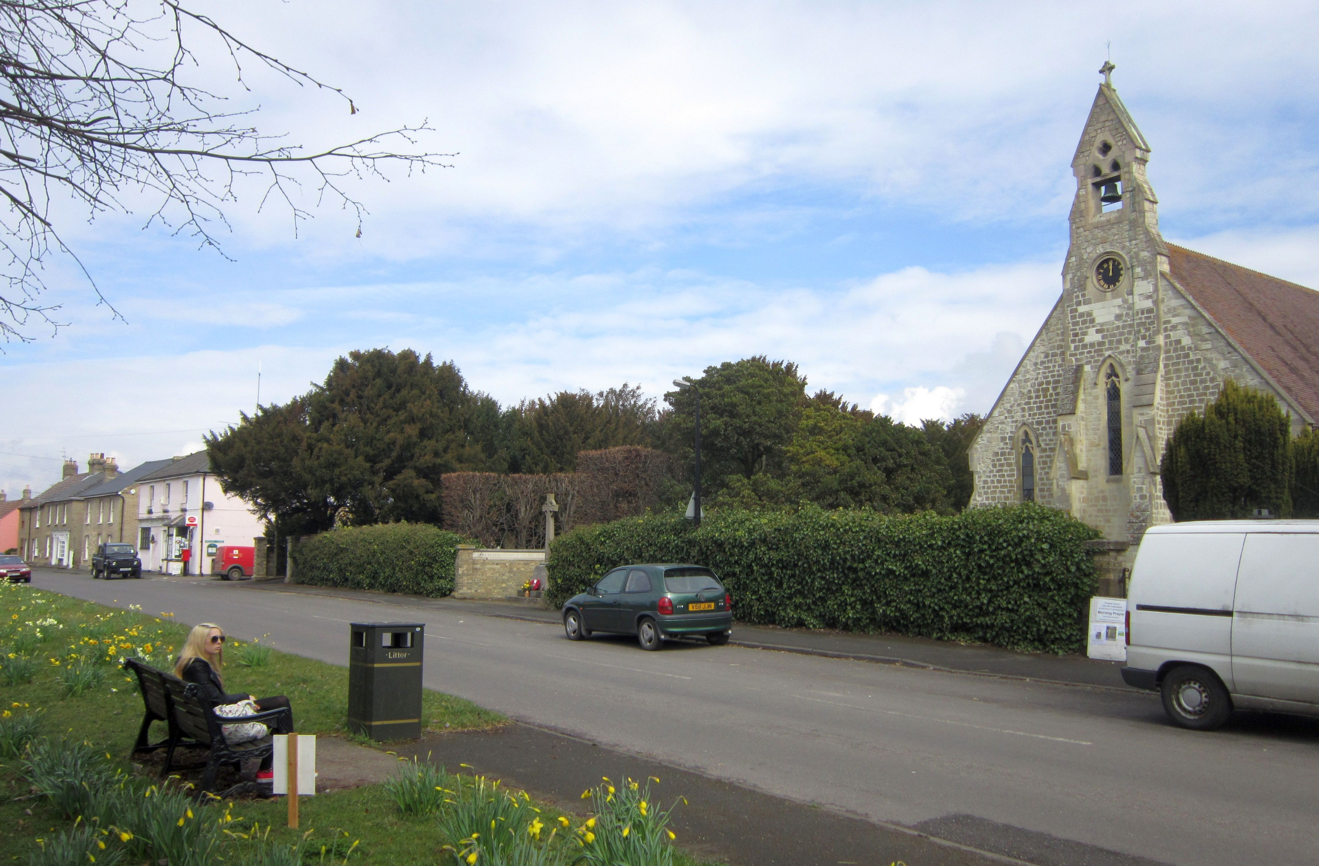 High street in Lode, Cambridgeshire: parish church of St James, with the village post office in the background